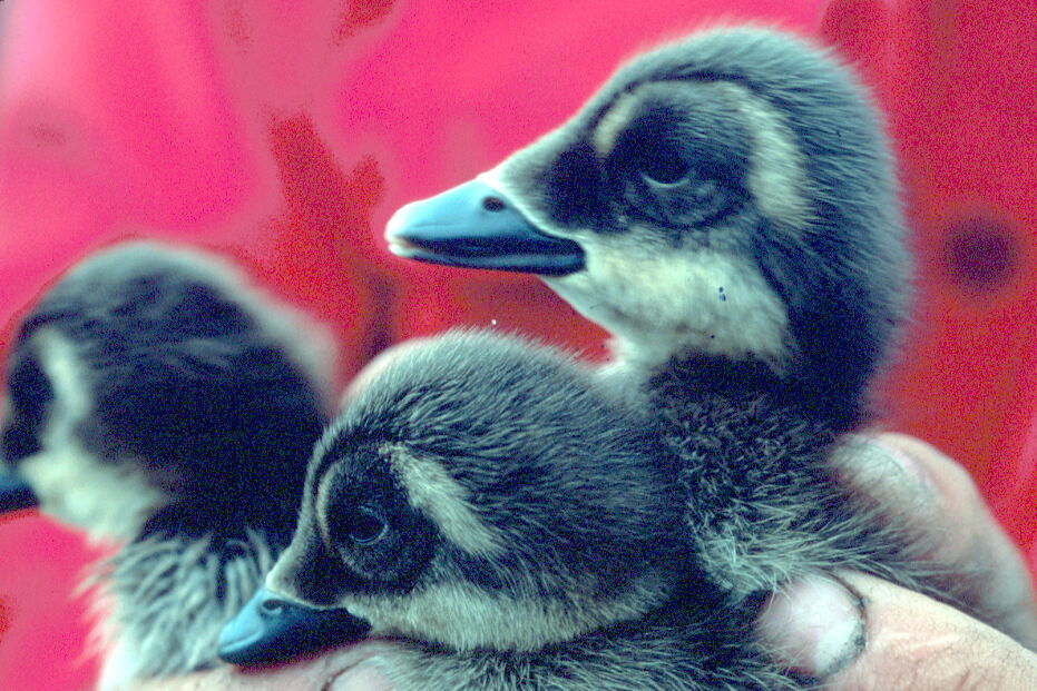 Three young Spectacled Eiders (Somateria fischeri)